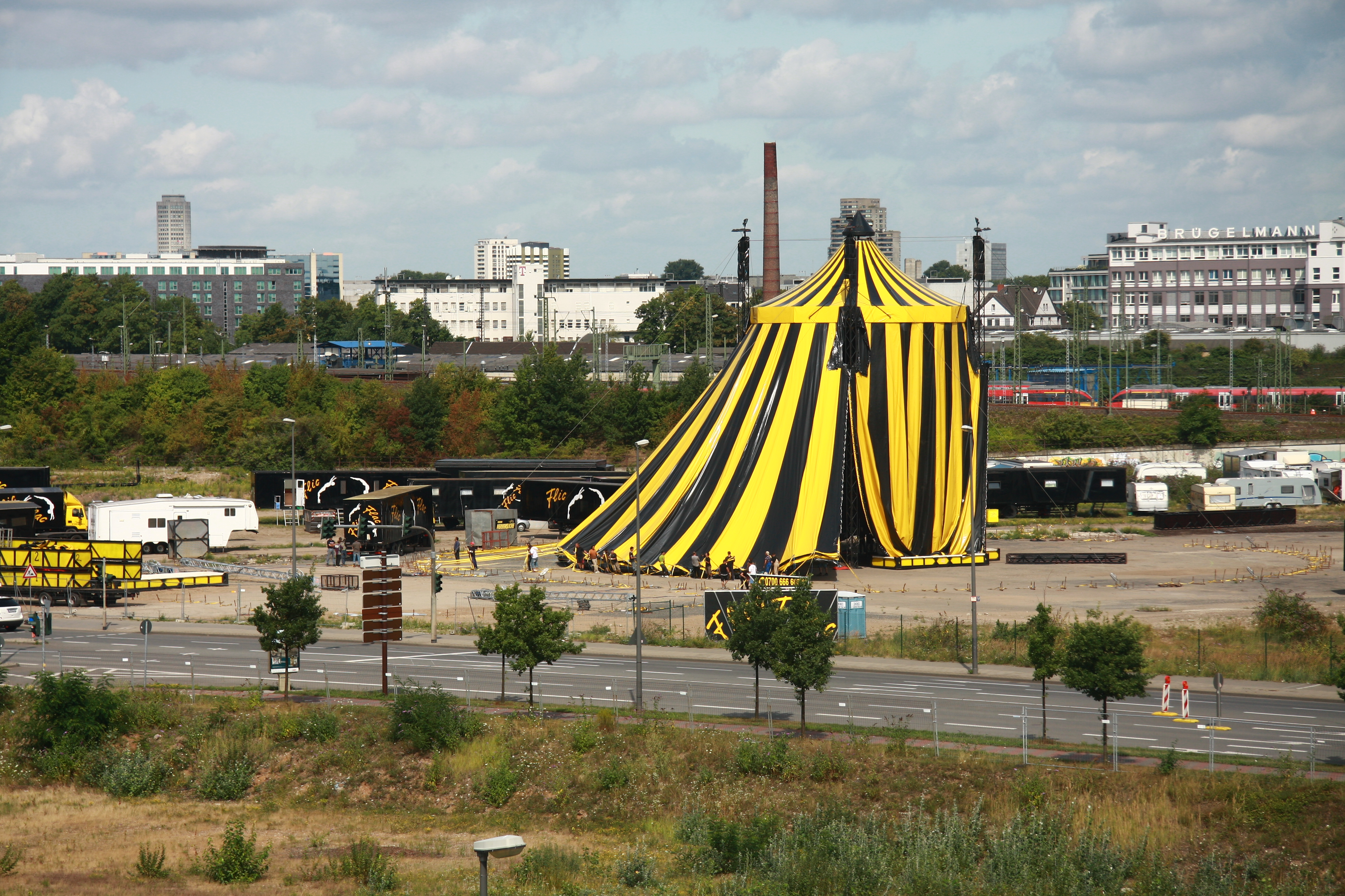 Circus Flic Flac in Köln-Kalk